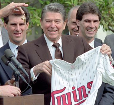 President Ronald Reagan During a Ceremony to Congratulate The Minnesota Twins Baseball Team, Winners of The 1987 World Series and Holding a Minnesota Twins Baseball Jersey in The Rose Garden